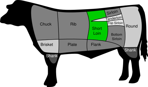 Uploaded for an infobox